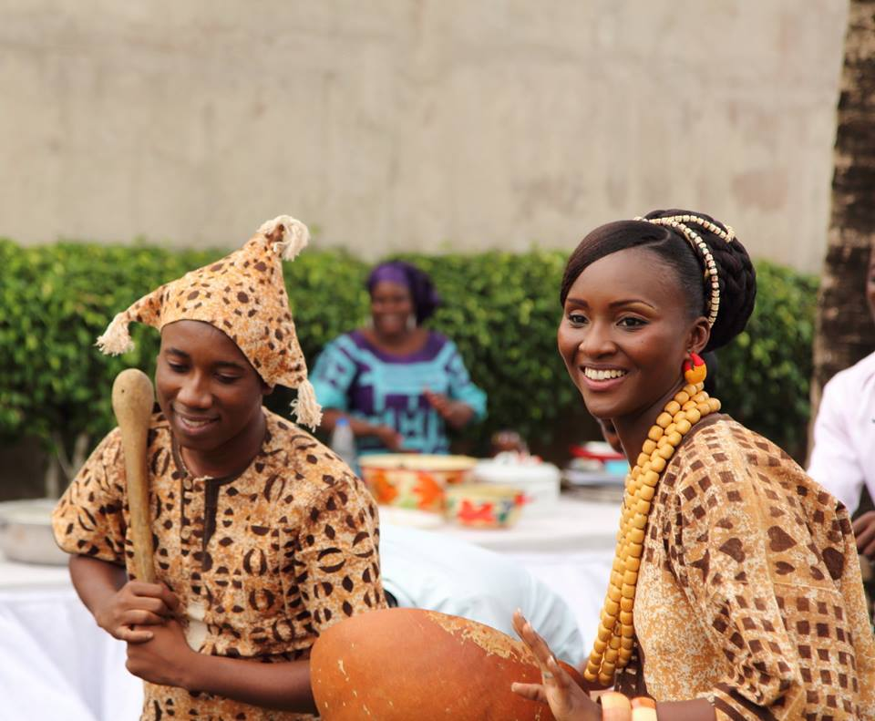 This is an image of Cultural Fashion or Adornment from Ivory Coast